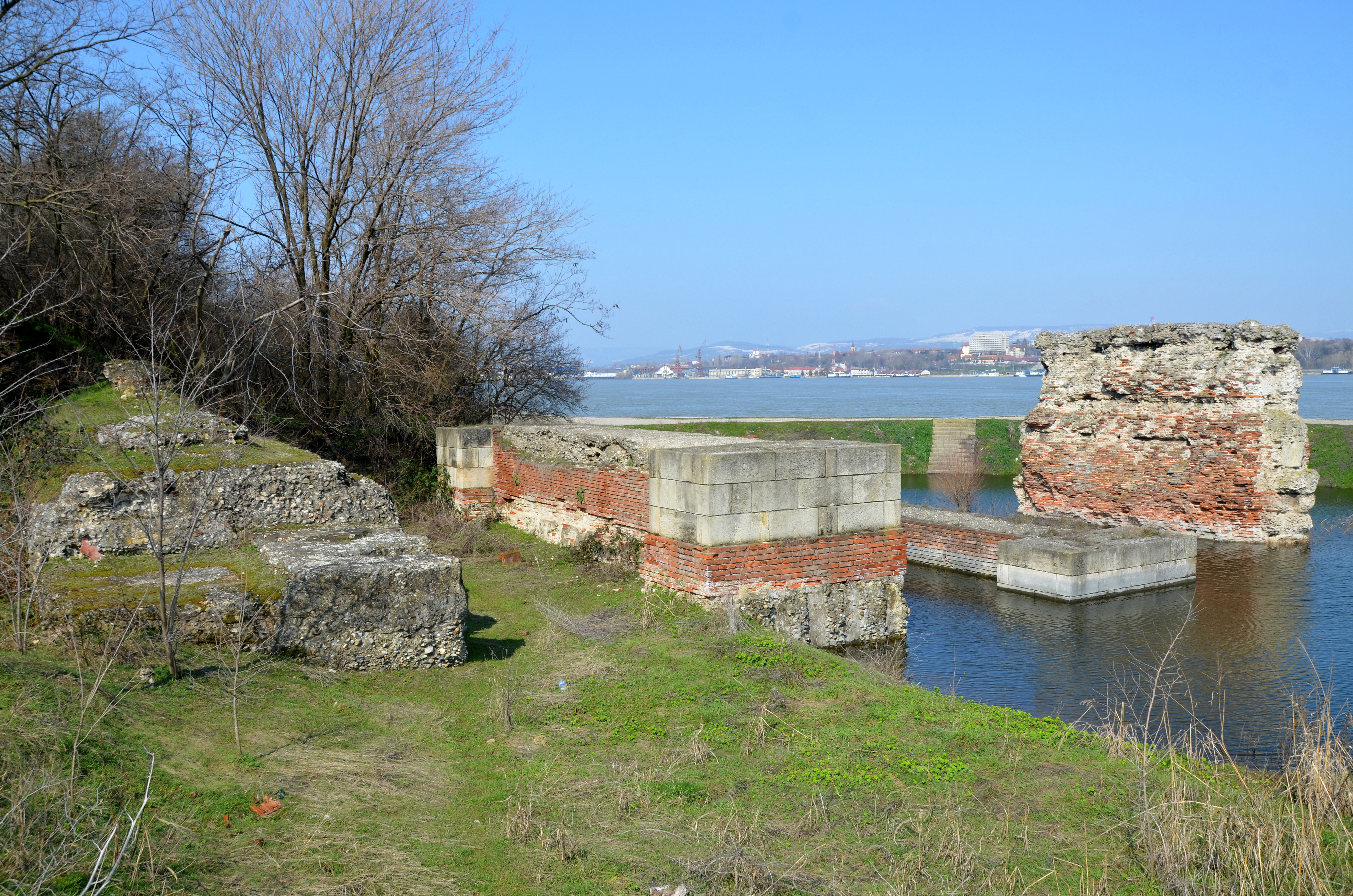 Remains of the Trajan's Bridge on the right bank of Danube, Serbia